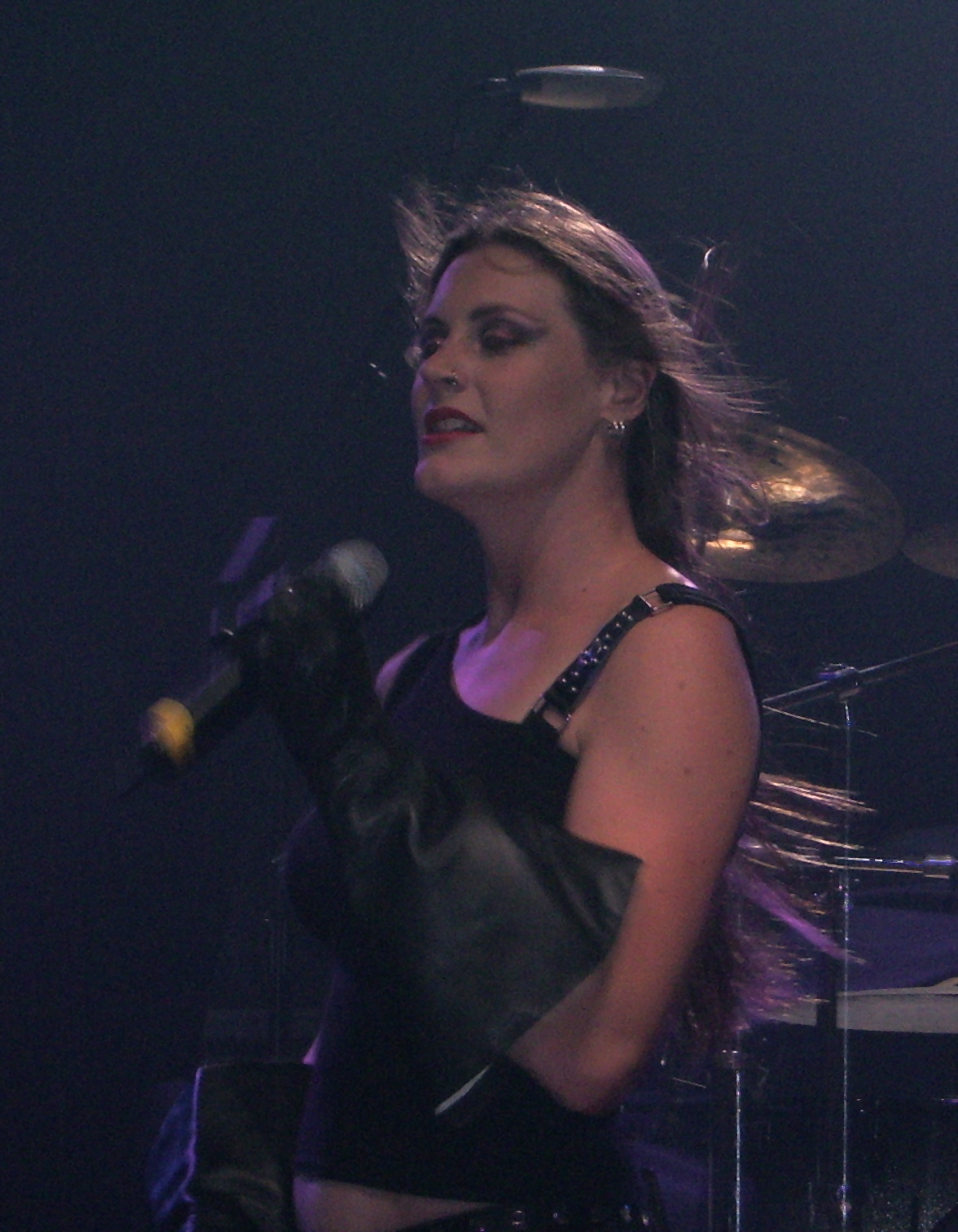 Floor Jansen performing at Bloodstock with After Forever